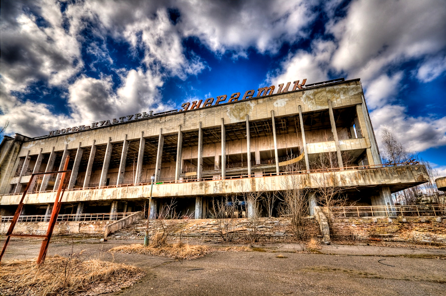 Palace of Culture on Lenin Square, in the ghost city of Pripyat near Chernobyl. Modified with Gimp, by Hiob (size, color, light, contrast).